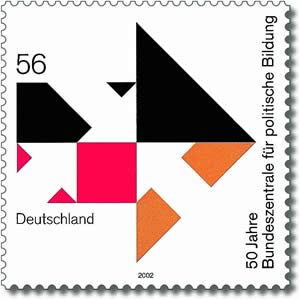 Stamp from Deutsche Post AG from 2002, 50th anniversary of Federal Agency for Civic Education